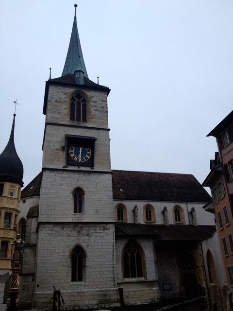 The old town church in Biel.